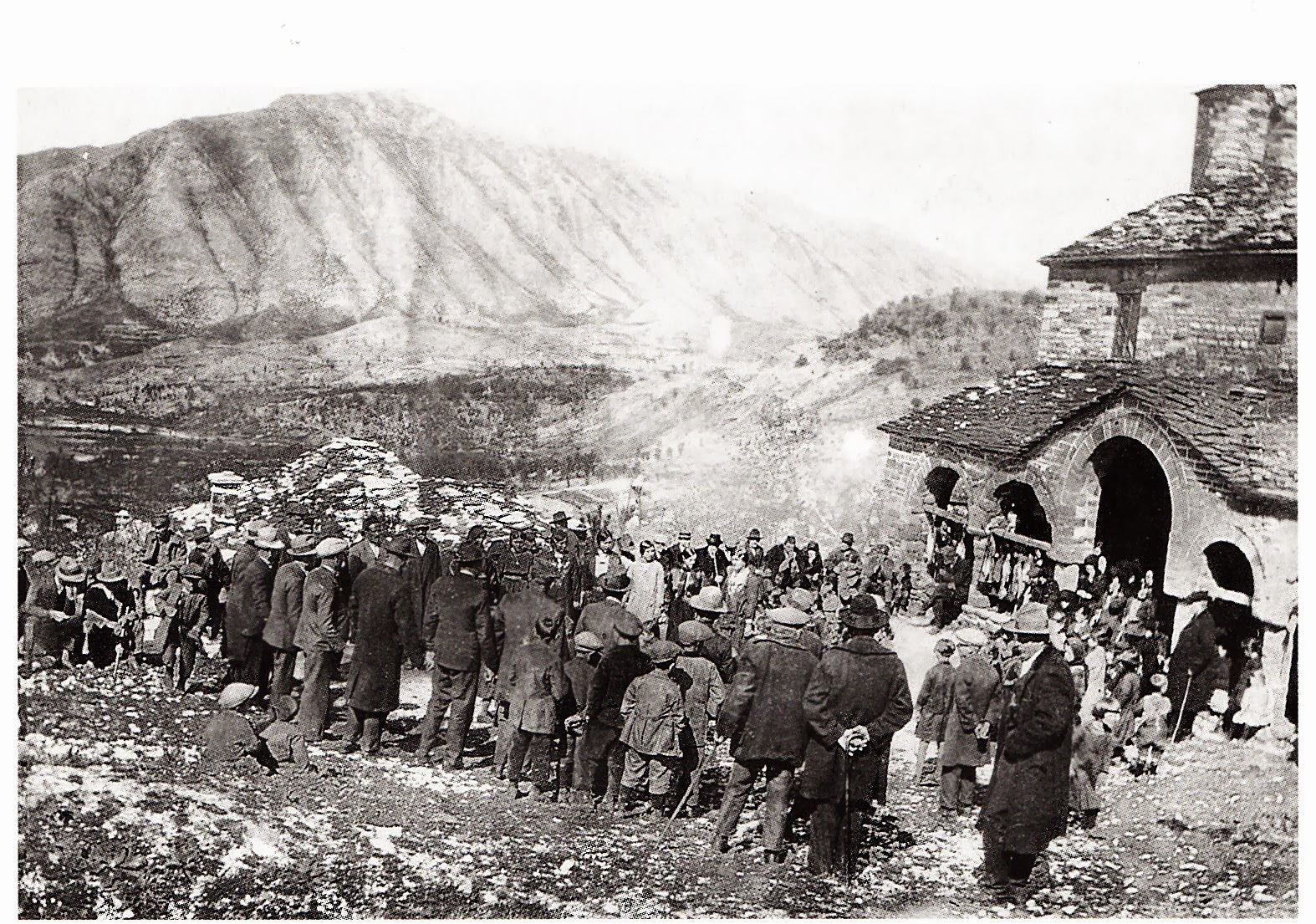 Religious festival in Saint Nicholas Church of Polytsani (Polican), Northern Epirus (today Albania), 1931.